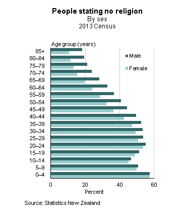 2013 New Zealand Census - graph showing People stating no religion by sex and age